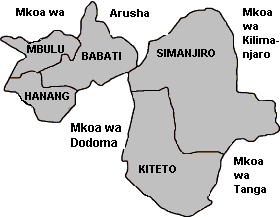 Kiswahili: kutokana na Manyara.gif (5KB, MIME type: image/gif) Summary Created by Andrew Coe